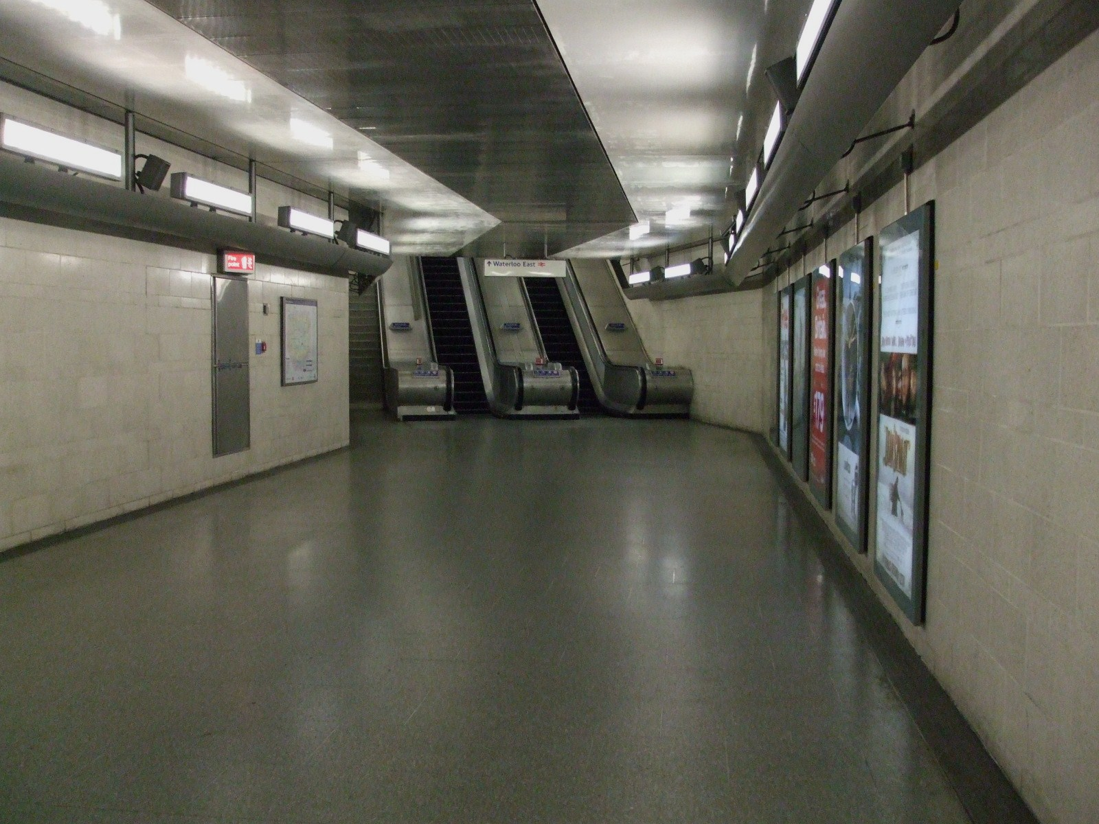 Southwark tube station interior, with escalators up to Waterloo East station